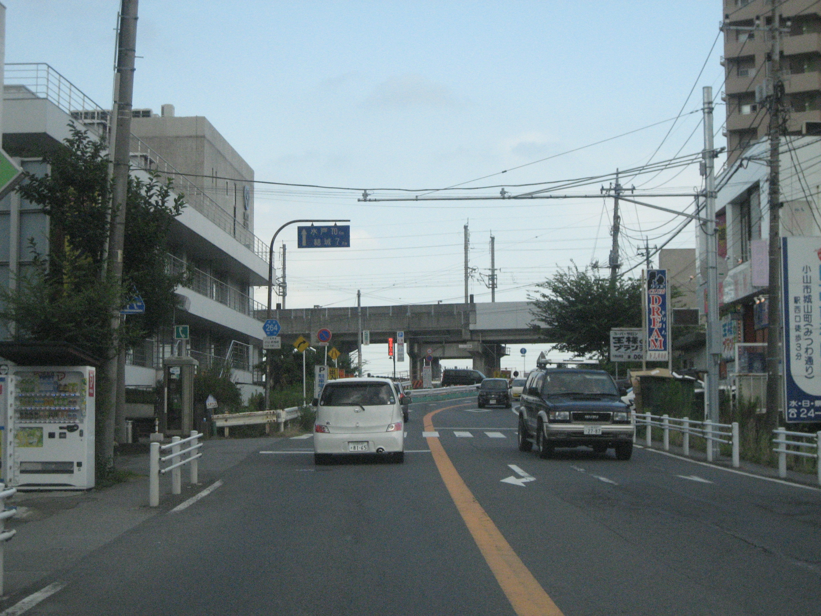 The Tochigi Prefectural Road Route 264 in Oyama City